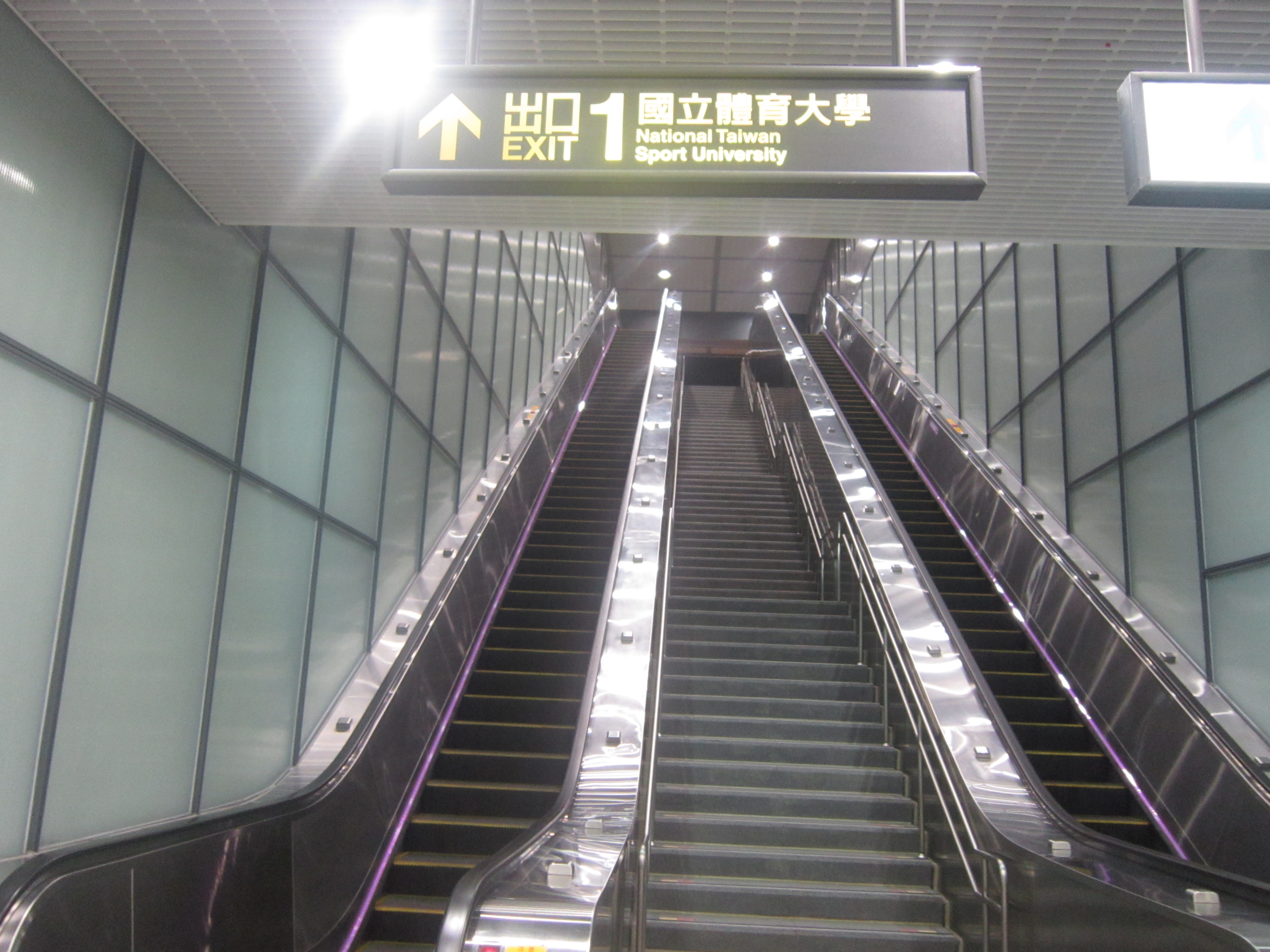 Escalators and stairs to Exit 1, National Taiwan Sport University Station, Taoyuan Metro.